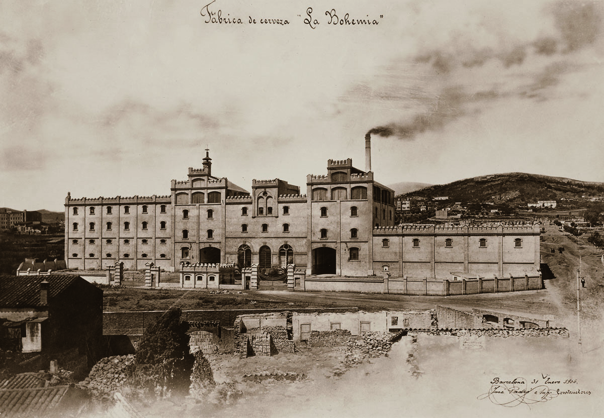 1906 image of Old Damm beer brewery ("Antiga Fabrica Estrella Damm") in Barcelona.